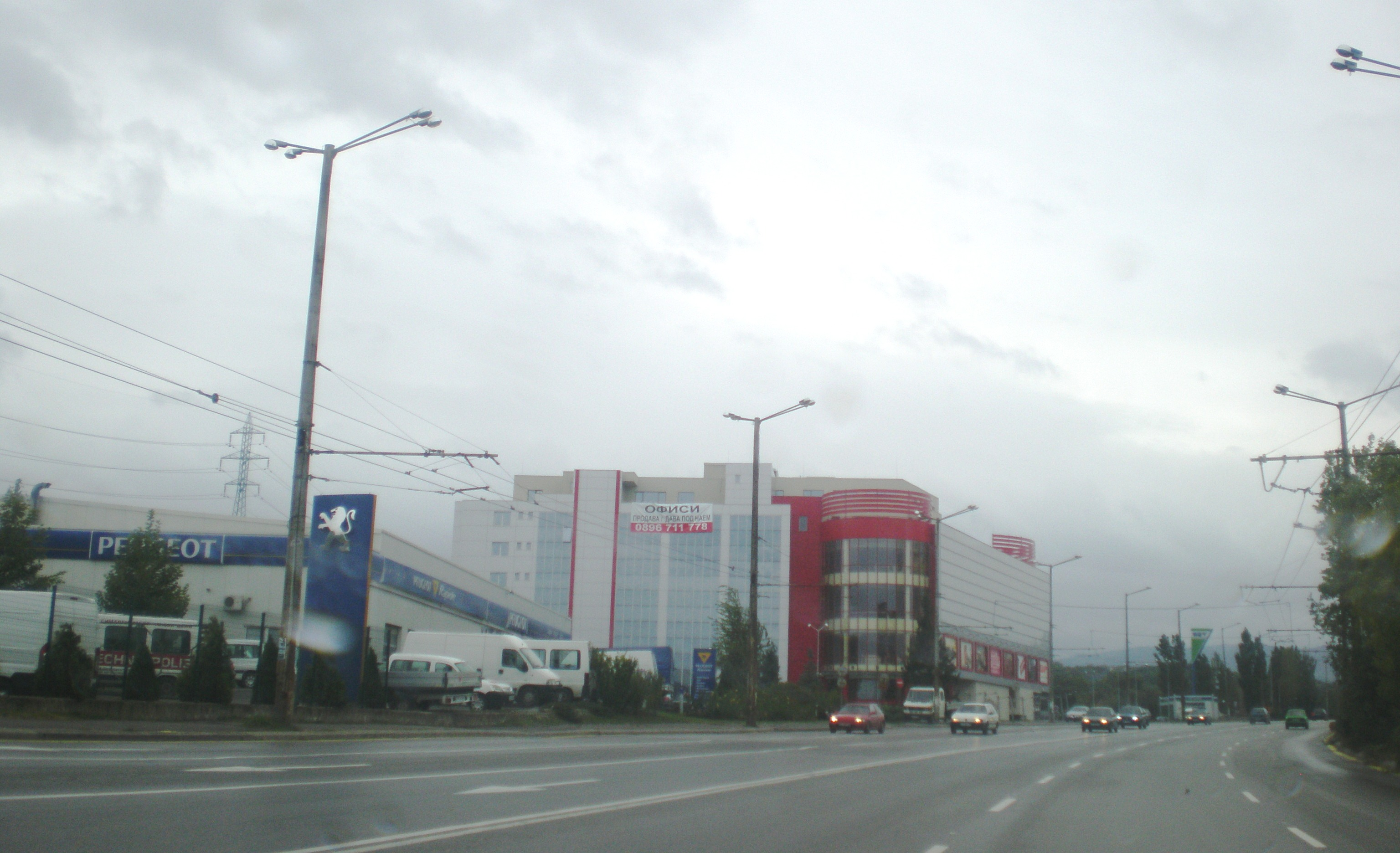 Petar Dertliev boulevard, Lyulin district, Sofia